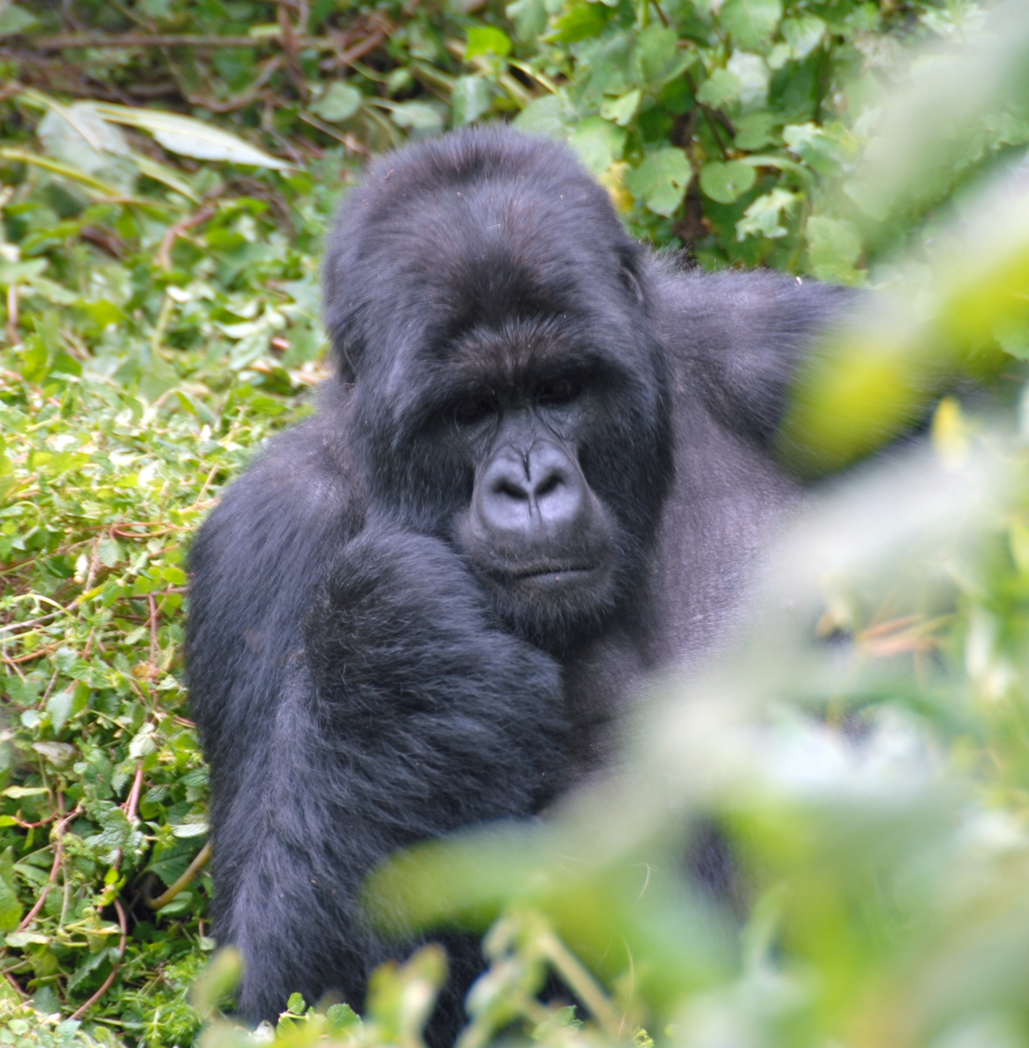 Susa group, mountain gorillas